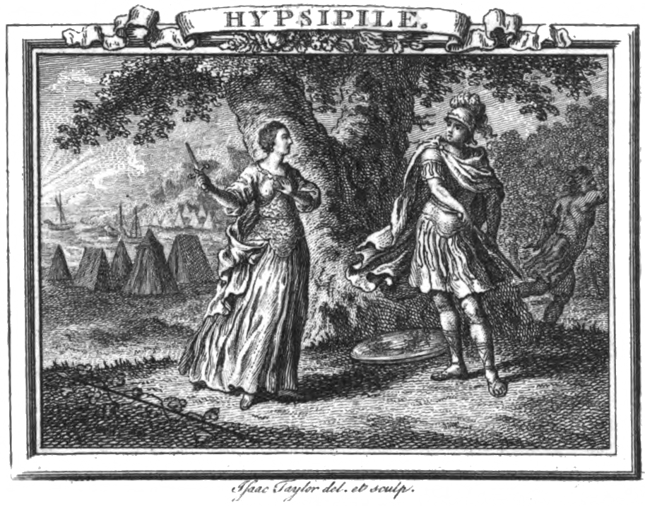 Metastasio - Hypsipile - Hoole Vol.1 - London 1767